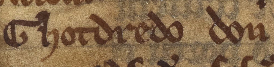 An excerpt from folio 44v of British Library Cotton MS Julius A VII (the Chronicle of Mann). A transcription of this excerpt appears on page 92 of: Munch, PA; Goss, A, eds. (1874). Chronica Regvm Manniæ et Insvlarvm: The Chronicle of Man and the Sudreys. Vol. 1. Douglas, IM: Manx Society. The excerpt reads: "Ghotdredo Don". The excerpt refers to Guðrøðr Rǫgnvaldsson, King of the Isles (died 1231).